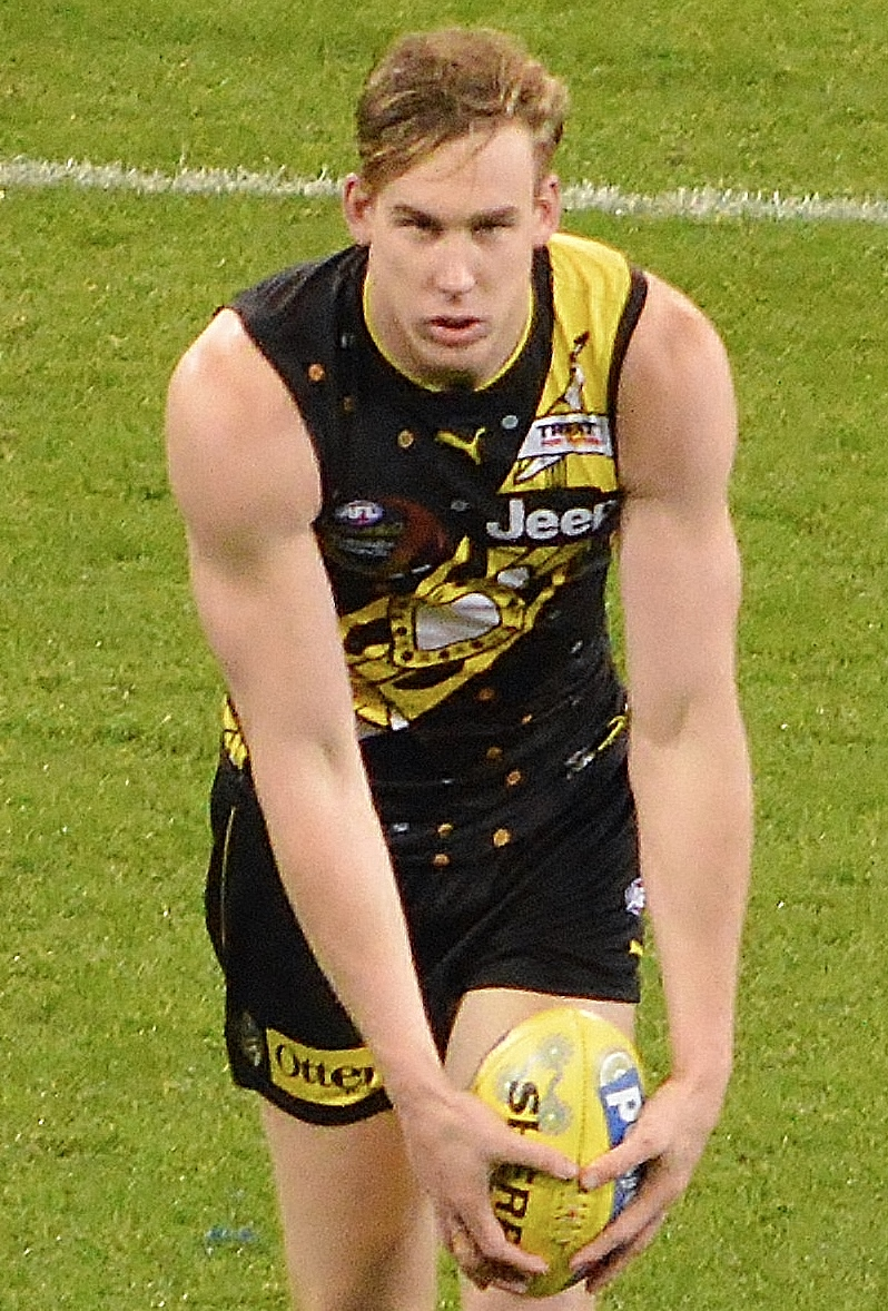 Tom Lynch with Richmond in the round 10 Dreamtime at the 'G AFL match against Essendon at the MCG on 25 May 2019.